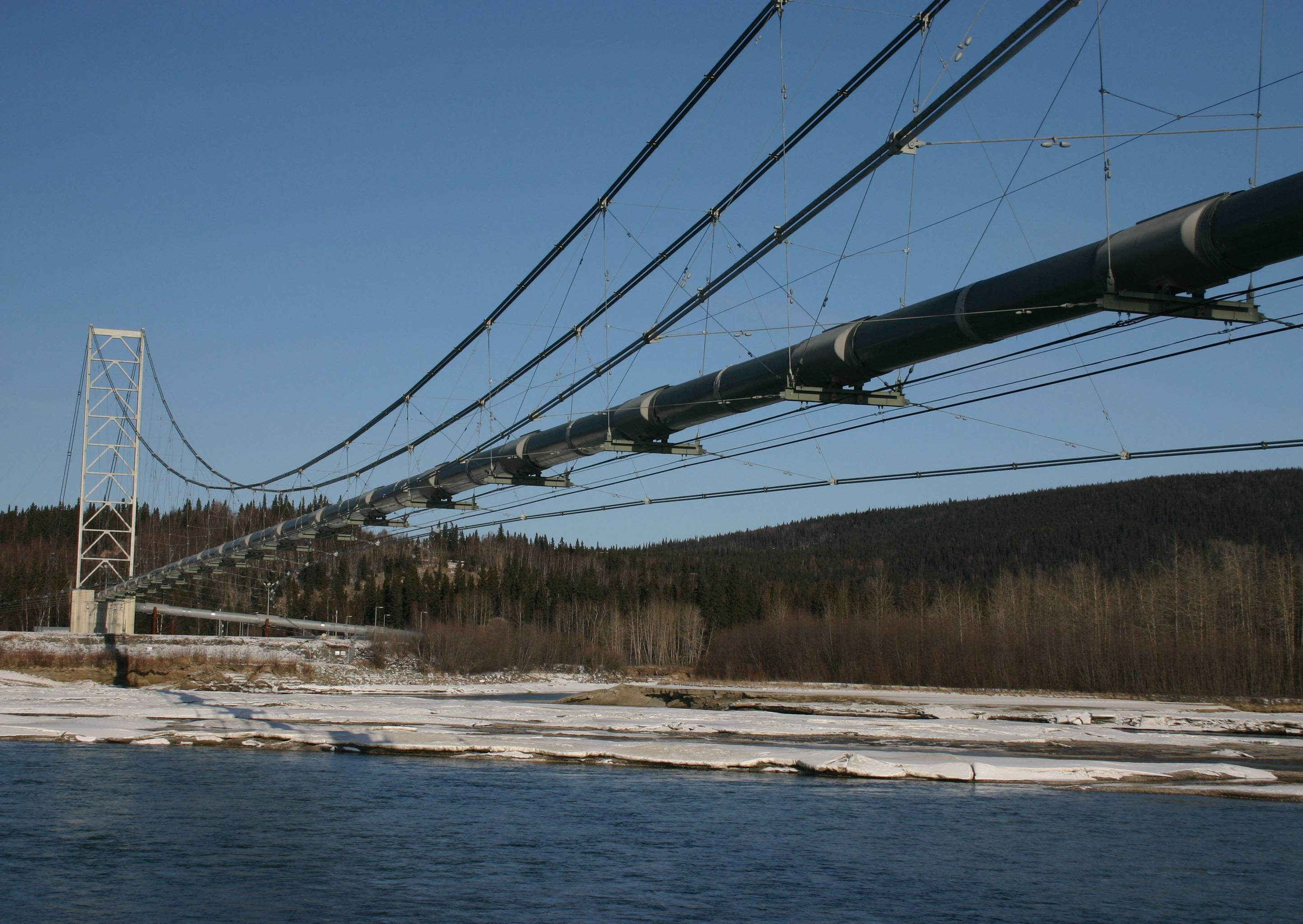 Taken on the road between Fairbanks and Anchorage in mid-March 2008. This was the long route via Delta and Glenallen - great drive but very long.